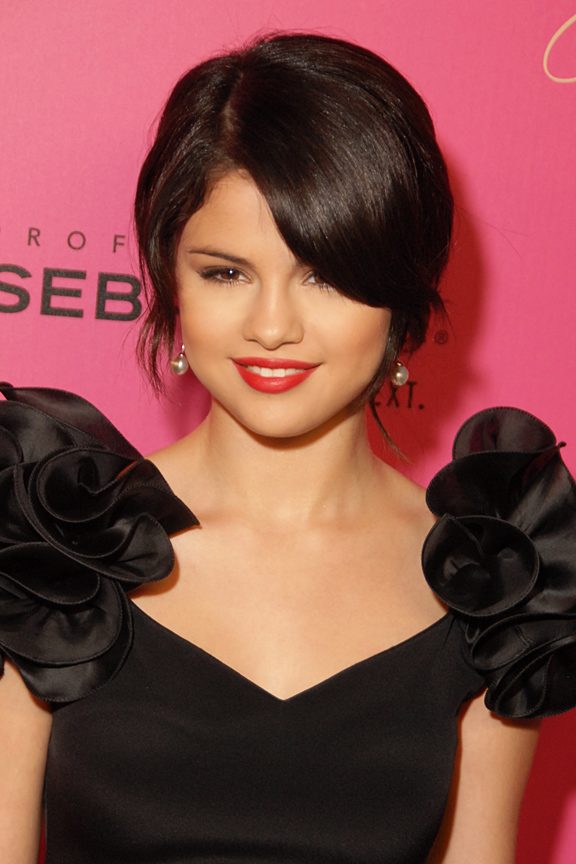 Selena Gomez attending "The 6th Annual Hollywood Style Awards" Beverly Hills, CA on Oct. 10, 2009 - Photo by Glenn Francis of